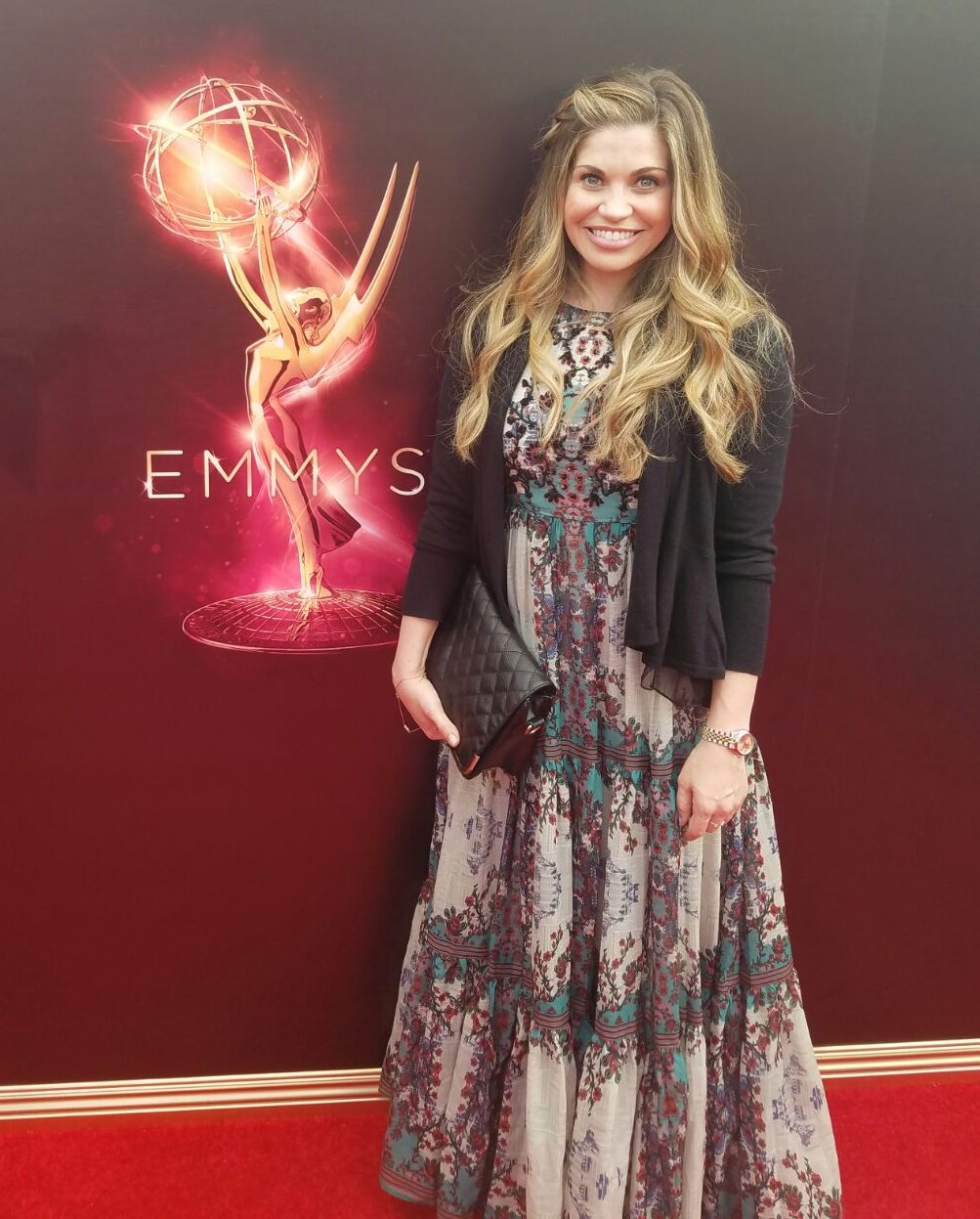 Actress Danielle Fishel at the 2016 Emmys